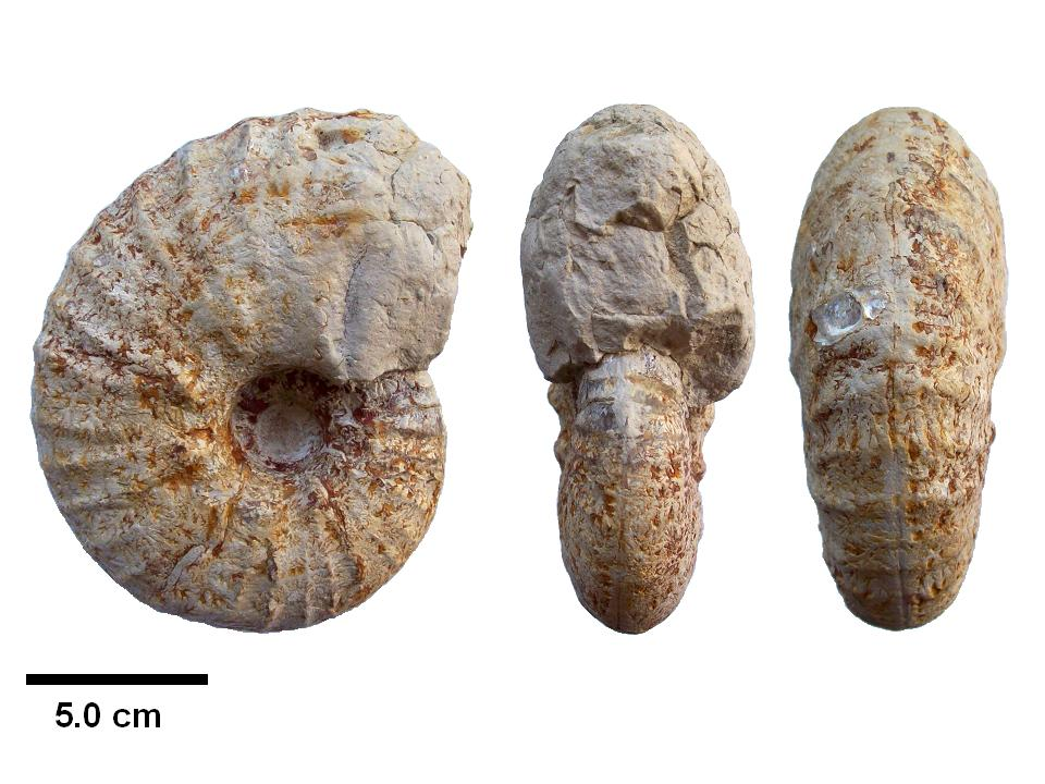 Specimen of Pachydiscus (Pachydiscus) neubergicus Hauer (Maastrichtian) from Madagascar.